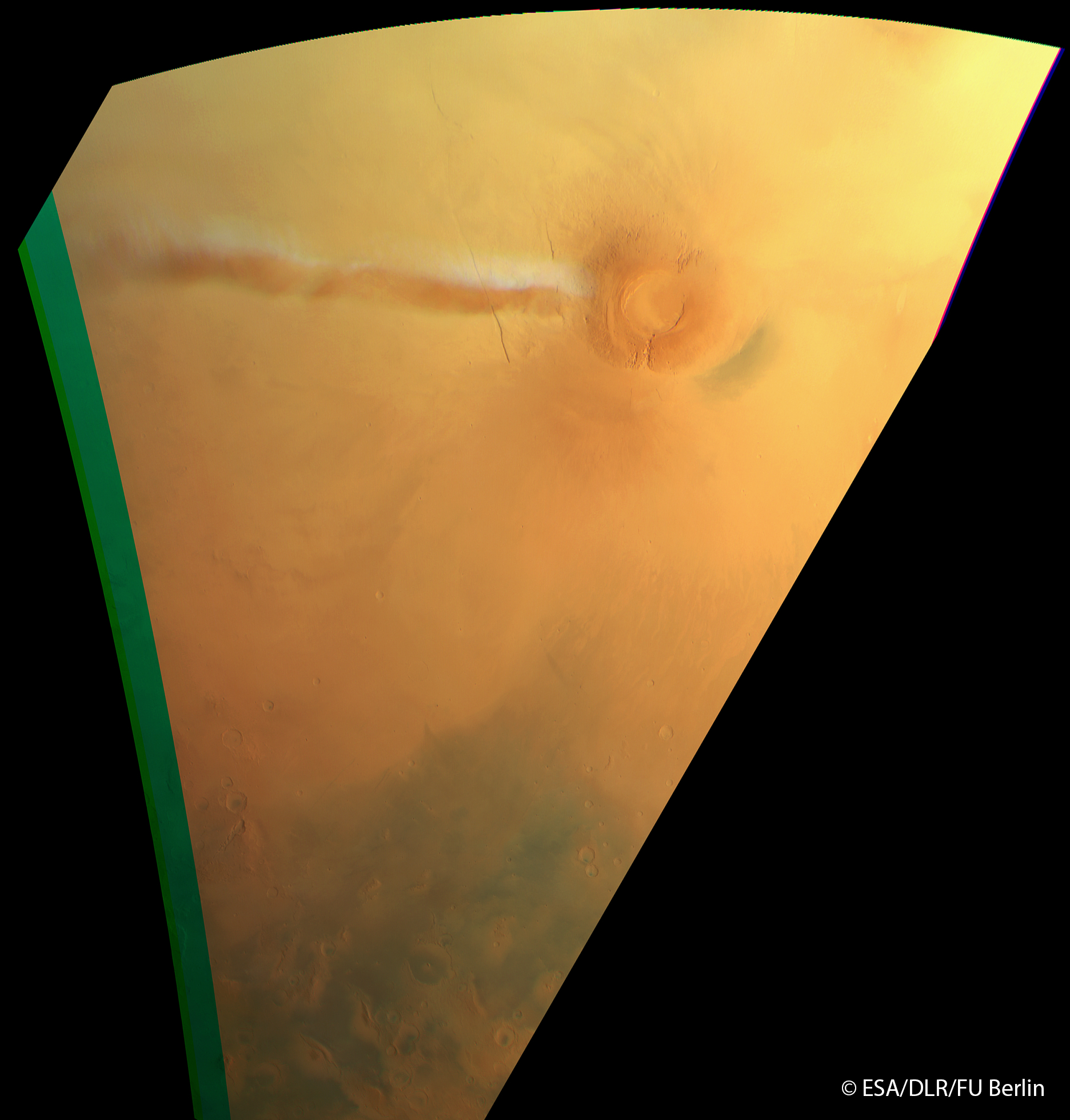 The High Resolution Stereo Camera on board ESA’s Mars Express snapped a view of a curious cloud formation that appears regularly in the vicinity of the Arsia Mons volcano. This water ice cloud, which arises as the volcano slope interacts with the air flow, can be seen as the long white feature extending to the lower right of the volcano. The cloud, which measures 915 km in this view, also casts a shadow on the surface. This image was taken on 21 September 2018 from an altitude of about 6930 km. North is up. More information:Mars Express keeps an eye on curious cloud